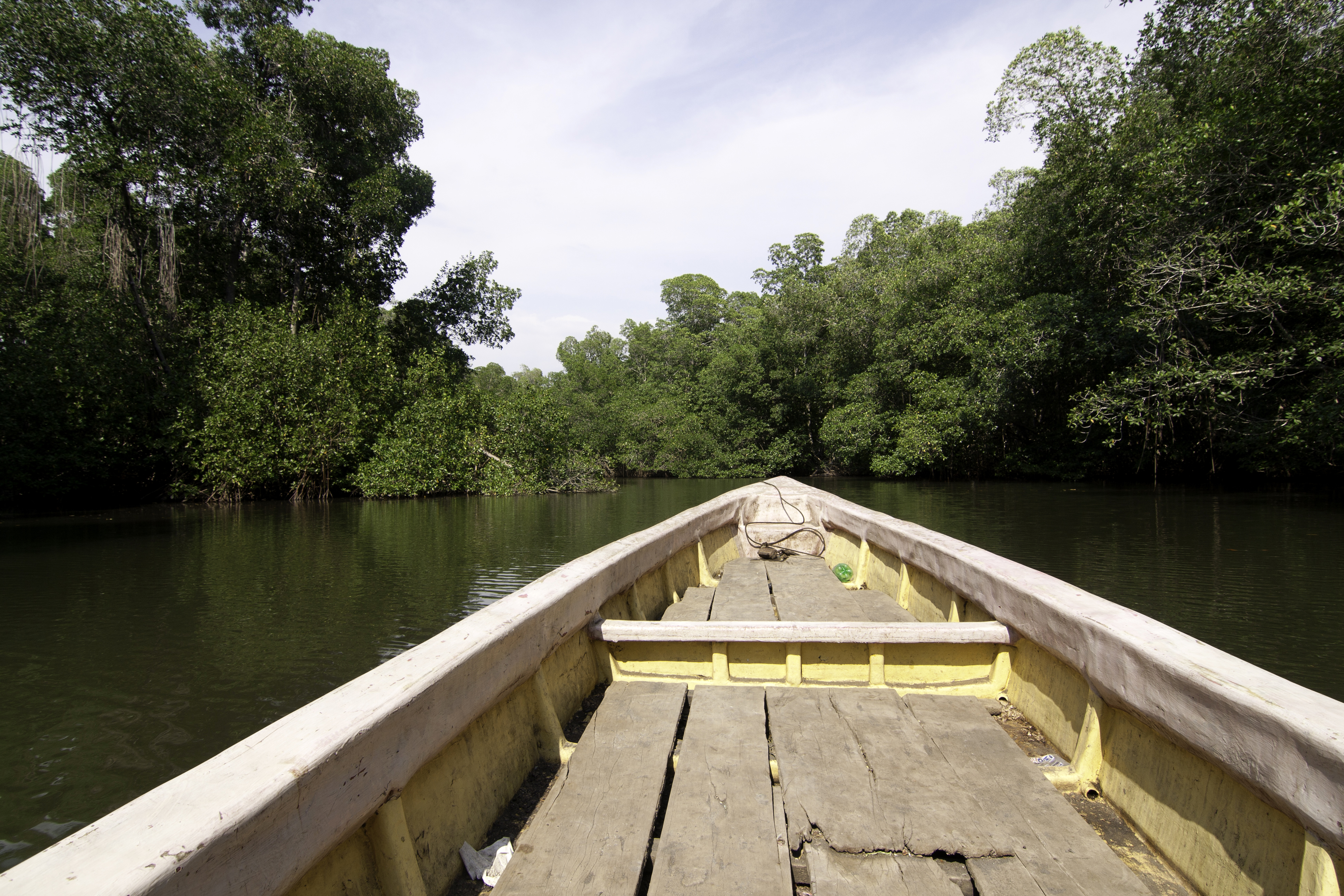 Mangroves in the Manchón Guamachal nature reserve in San Marcos, Guatemala.